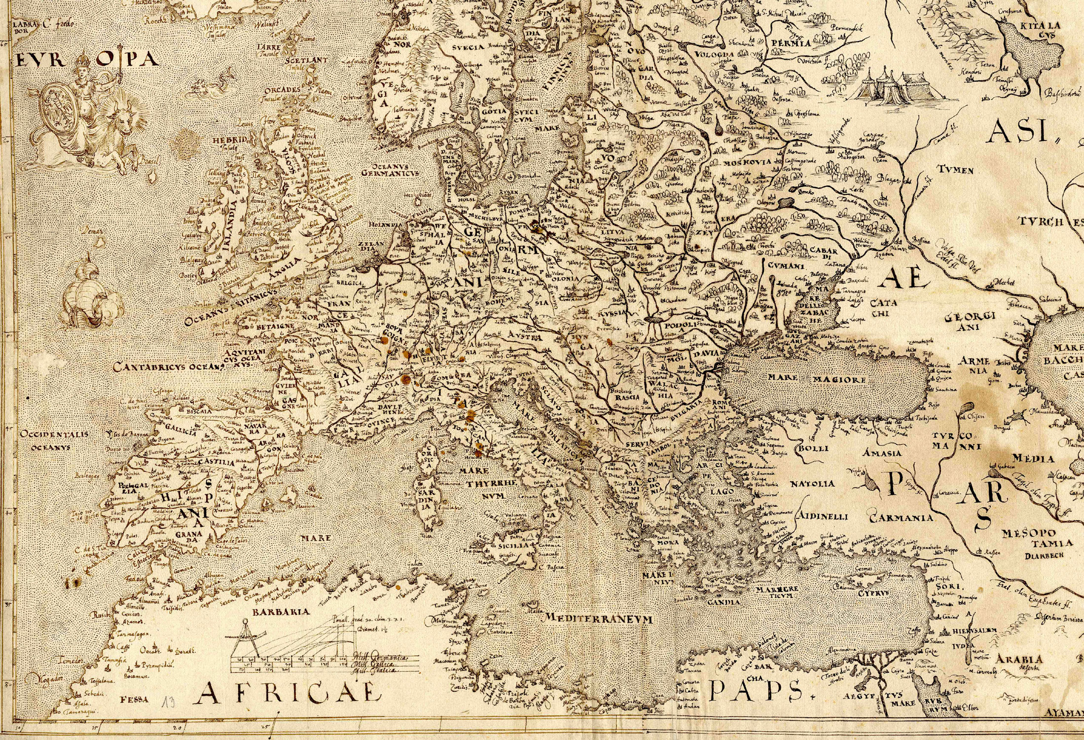 Map of Europe, drawing of c. 1570